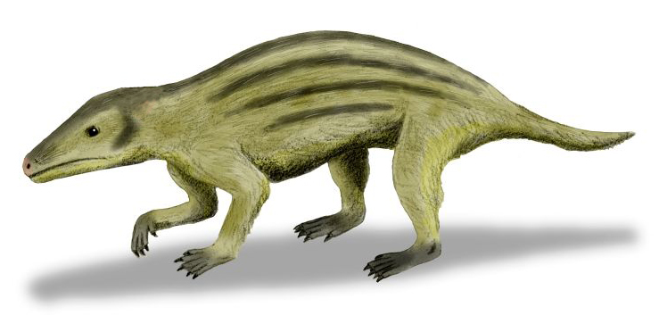 Pseudotribos robustus, a primitive mammal from the Middle Jurassic of China, after description by Z.X. Luo et al., 2007, pencil drawing, digital coloring